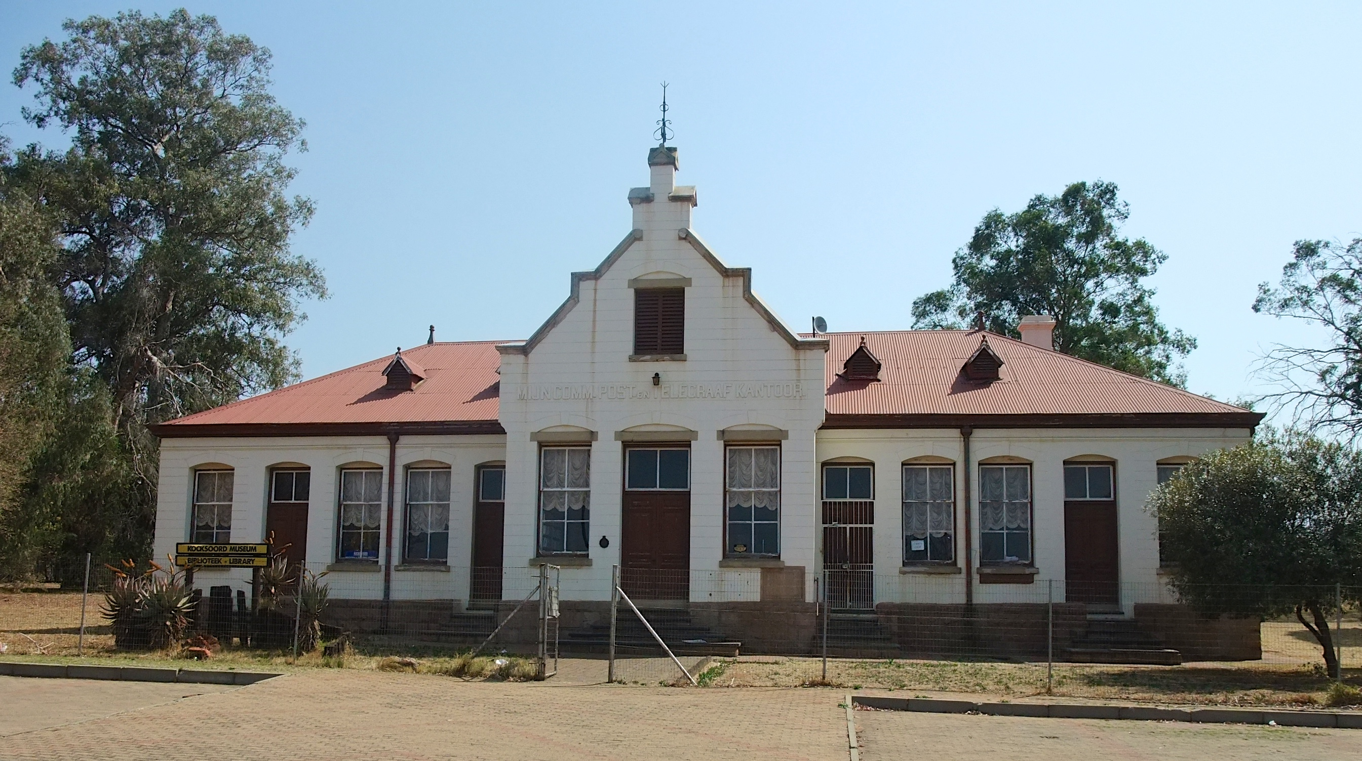 Old Mining Commissioner's Post and Telegraph Office Building, 70 Market Street, Kocksoord, Randfontein This media shows a South African Protected Site with SAHRA file reference 9/2/260/0003.